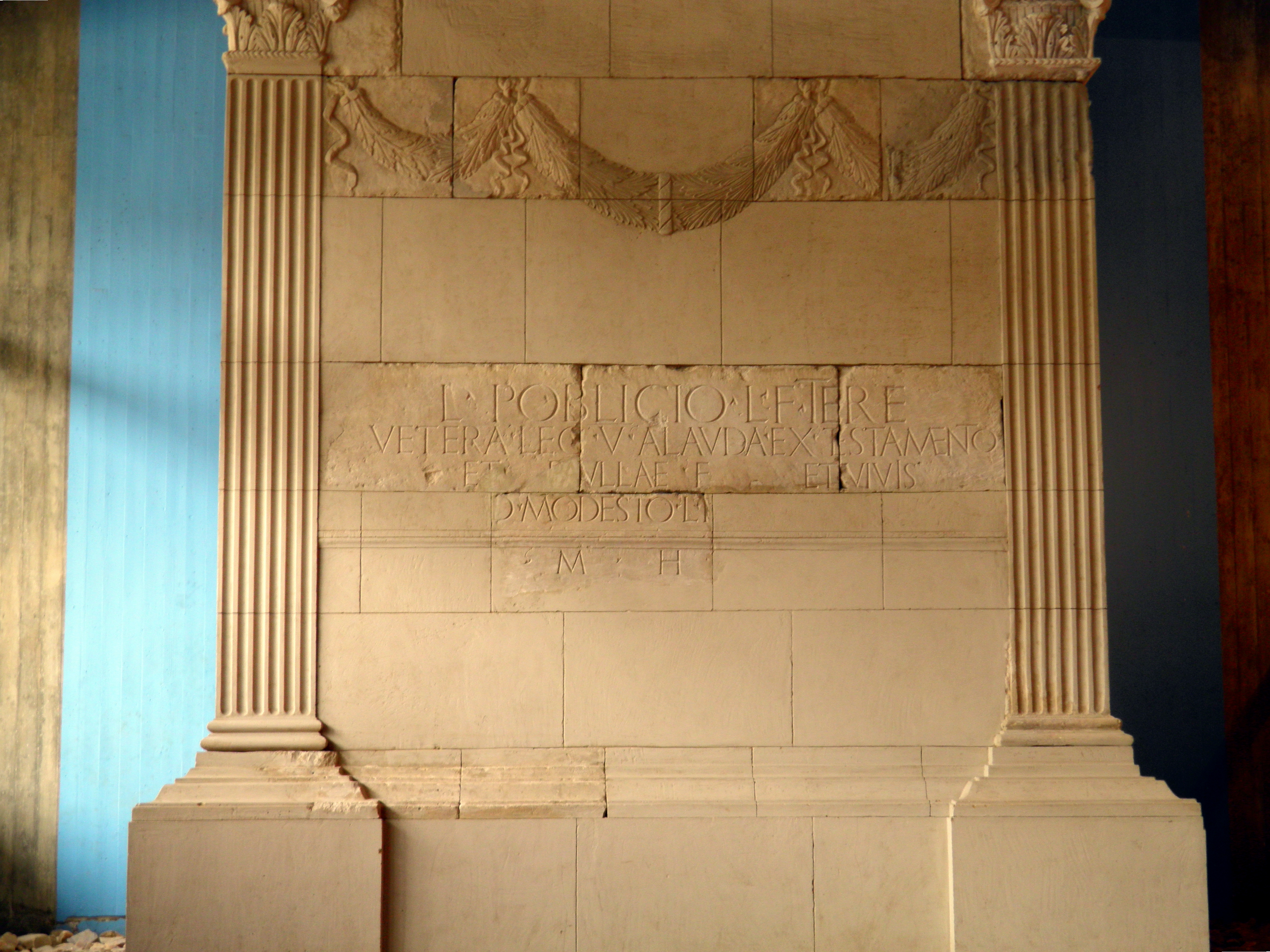 Tomb of Lucius Poblicius of Teretina, veteran of the 5th legion. Made of Lorraine limestone, originally plastered and painted. Erected outside Cologne.